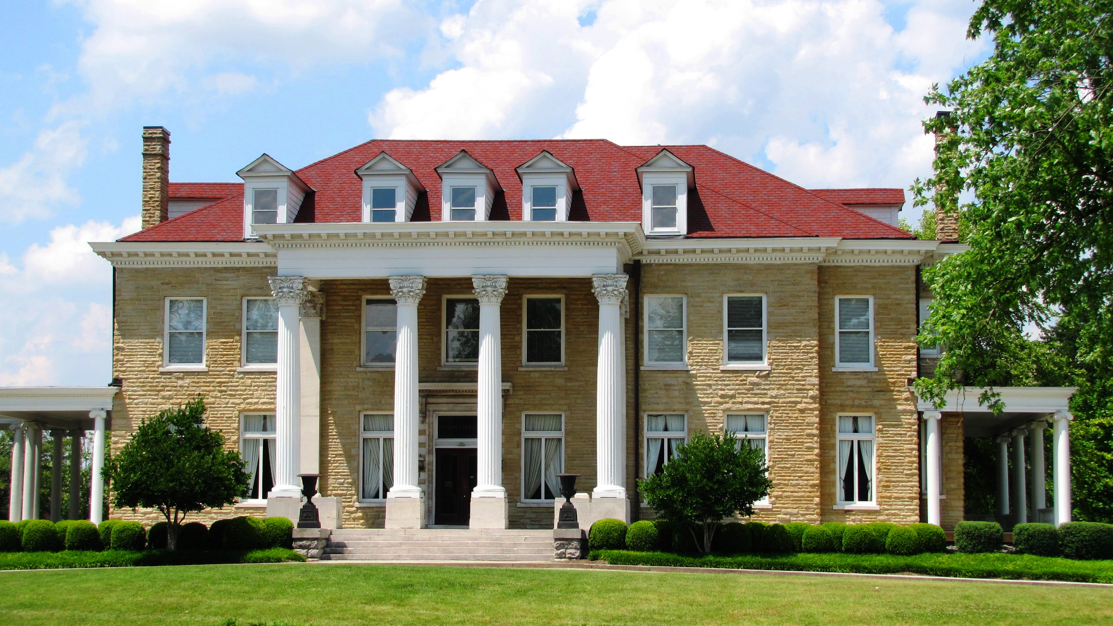 The Mitchell House on the grounds of the old Castle Heights Military Academy in Lebanon, Tennessee, USA. The house, built in 1904, is now home to the CBRL Group, the parent company of Cracker Barrel restaurants.